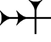 Cuneiform sign AN, DINGIR ("heavens, god"), Akkadian ìl (ilu), determinative before names of deities.